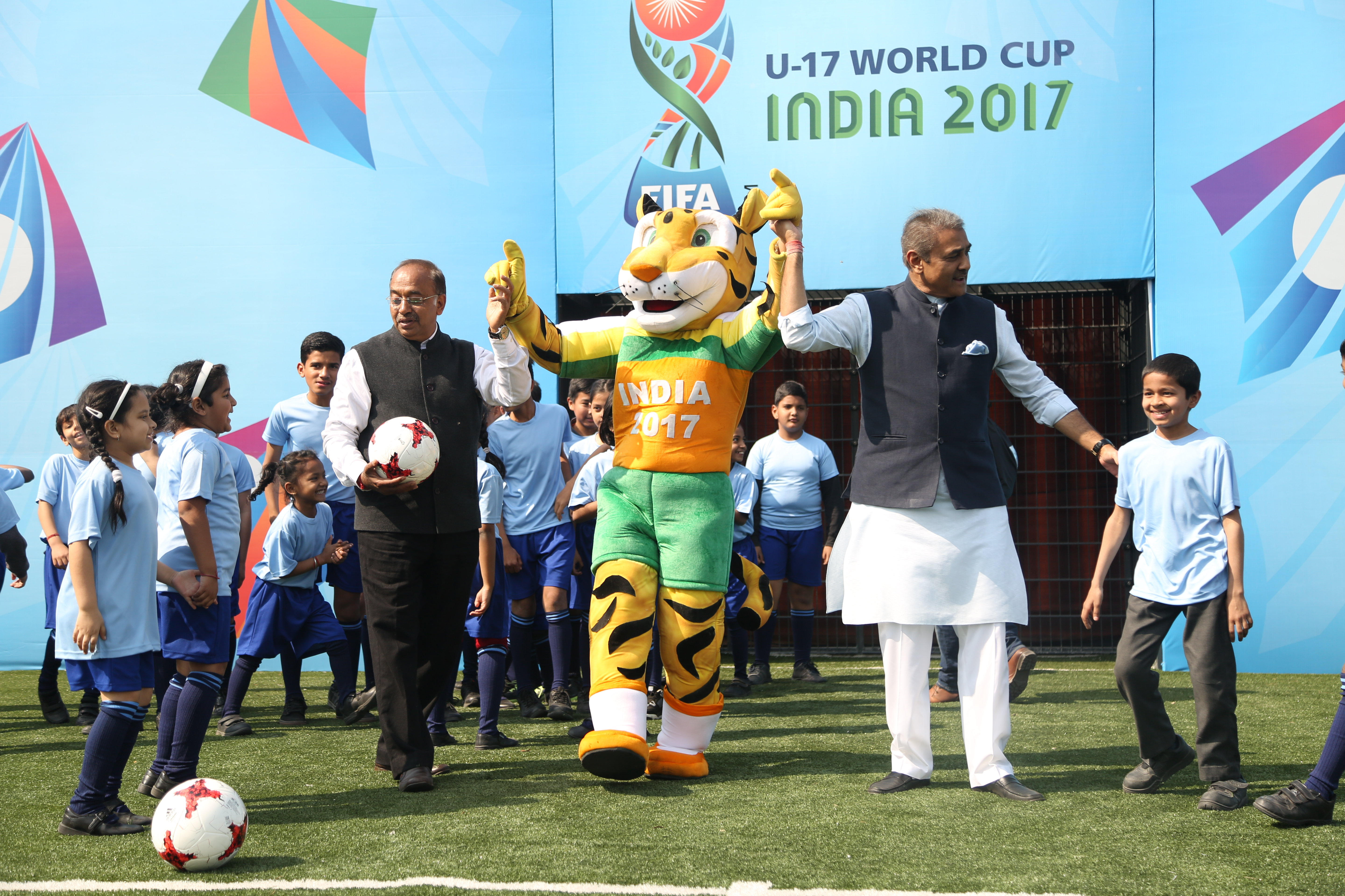 Vijay Goel, the Hon. Minister of State for Youth Affairs & Sports (IC) with President, AIFF, Mr. Praful Patel during the launch of MXIM